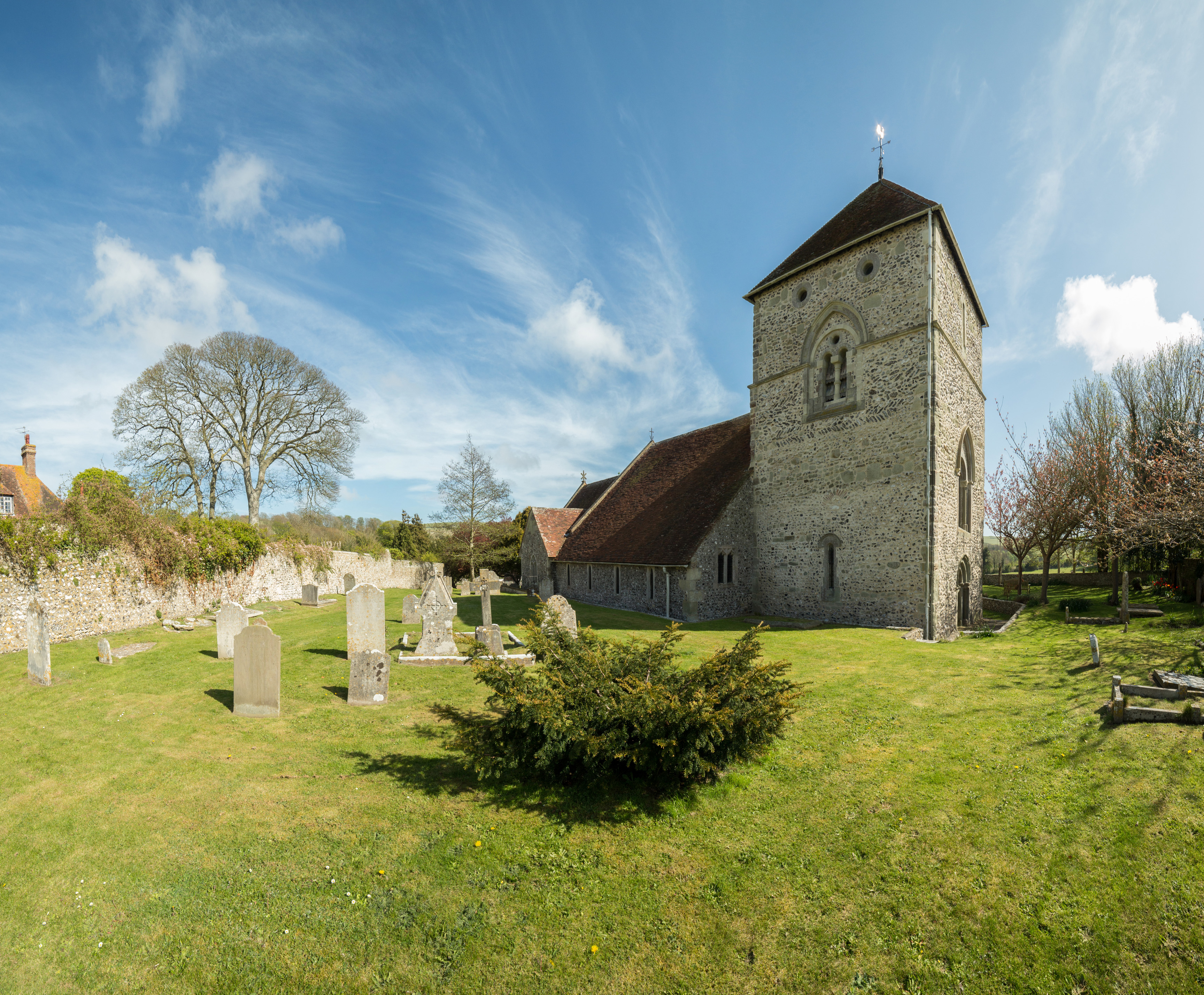 St Andrew's parish church, Jevington, East Sussex, seen from the northwest